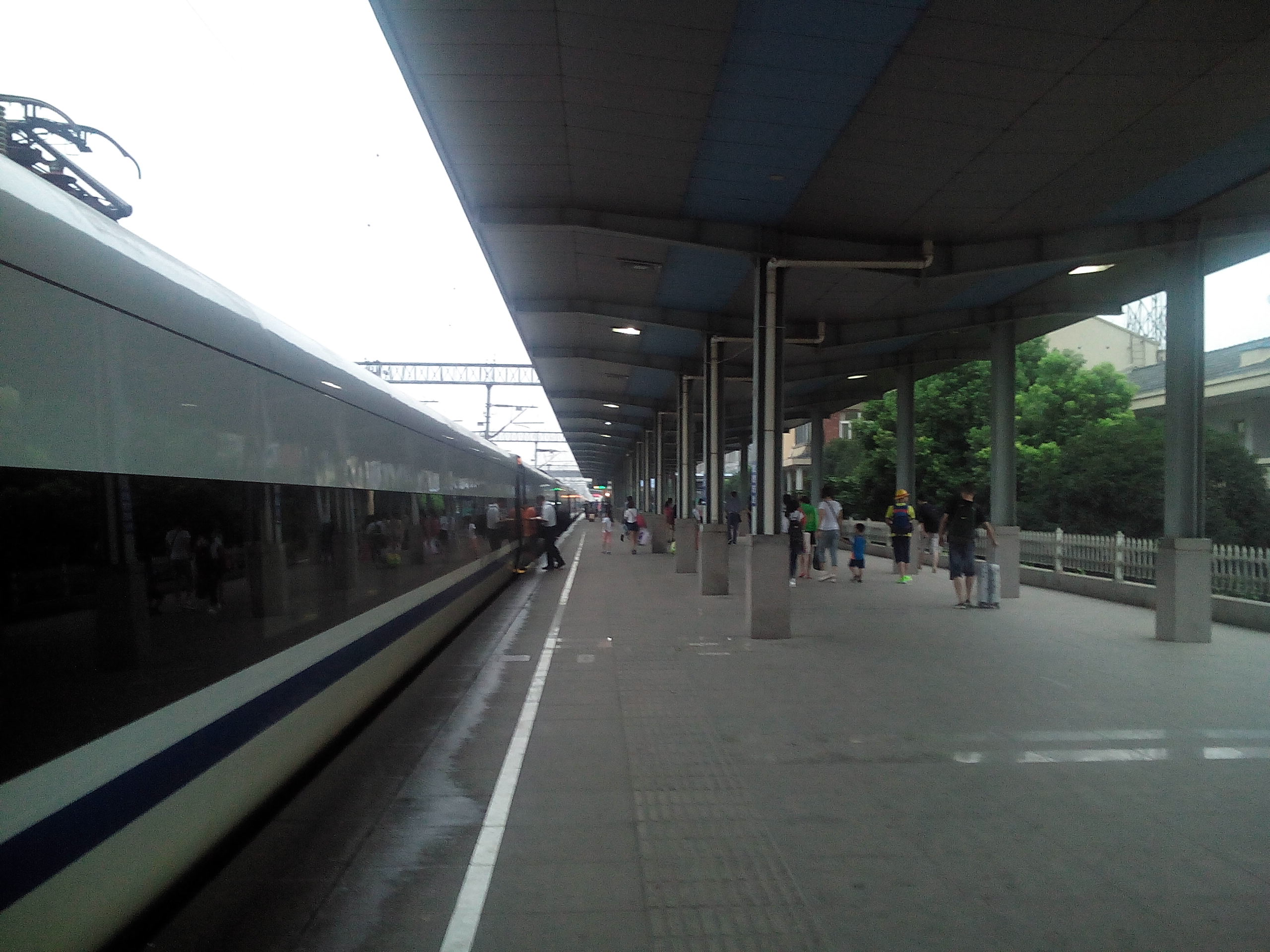 201408 CRH1B at Zhuji Railway Station